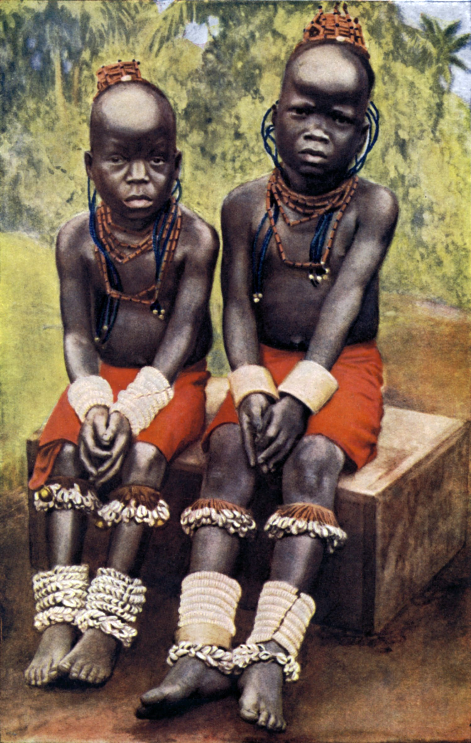 Gewgaws of primitive society. Nigerian maids waiting the signal to perform certain rites in a tribal ceremony. Their bracelets are of hippo ivory, anklets and garters of cowries, and necklaces and "coronets" of long red beads.